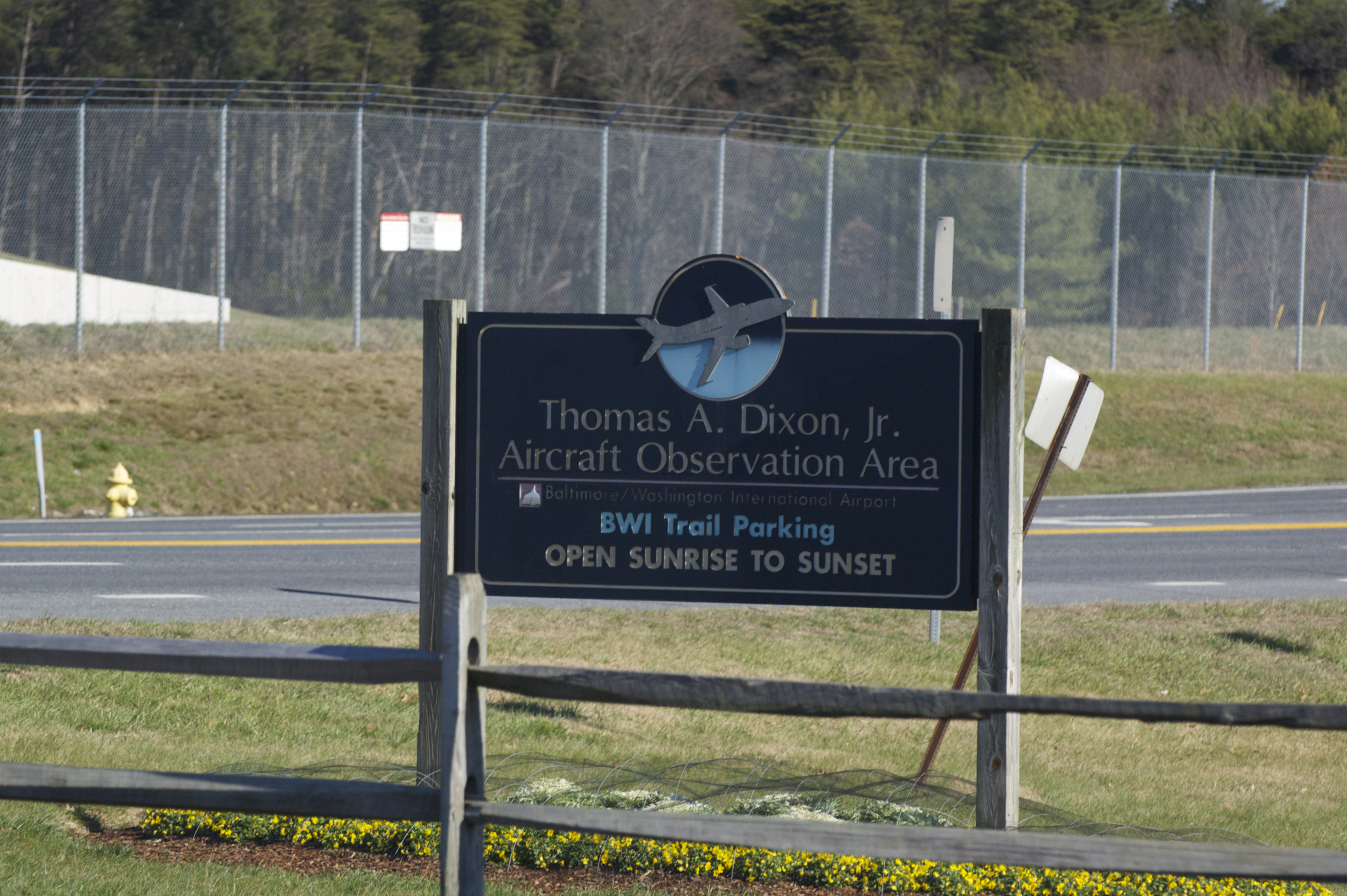 Sign at the park right outside BWI airport indicating the area is the Thomas A Dixon, Jr. Aircraft Observation Area